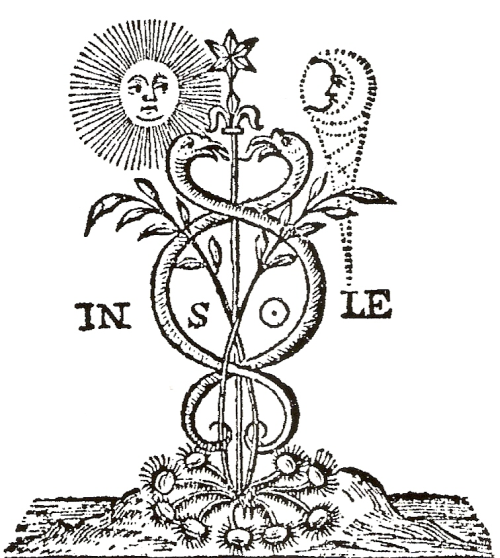 Ancient symbol of spagyric medicine